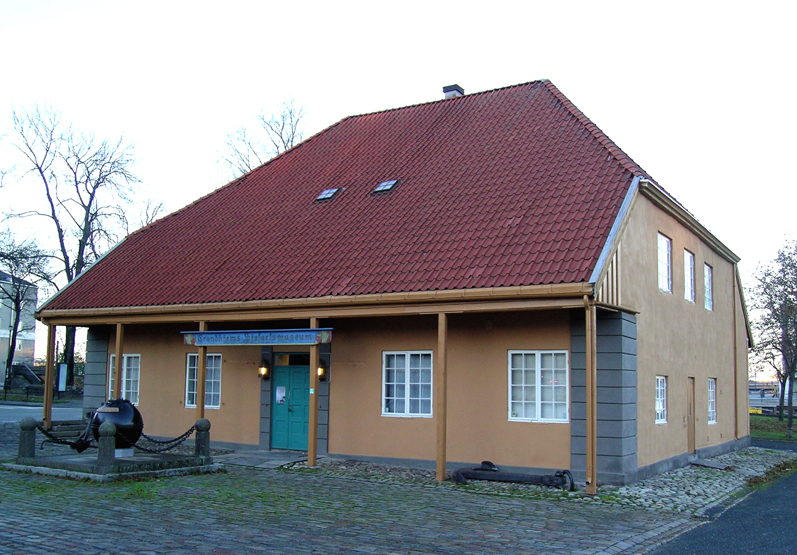 Brattørvakta, Trondheim. Built in the 1780s. Today Trondheims sjøfartsmuseum.